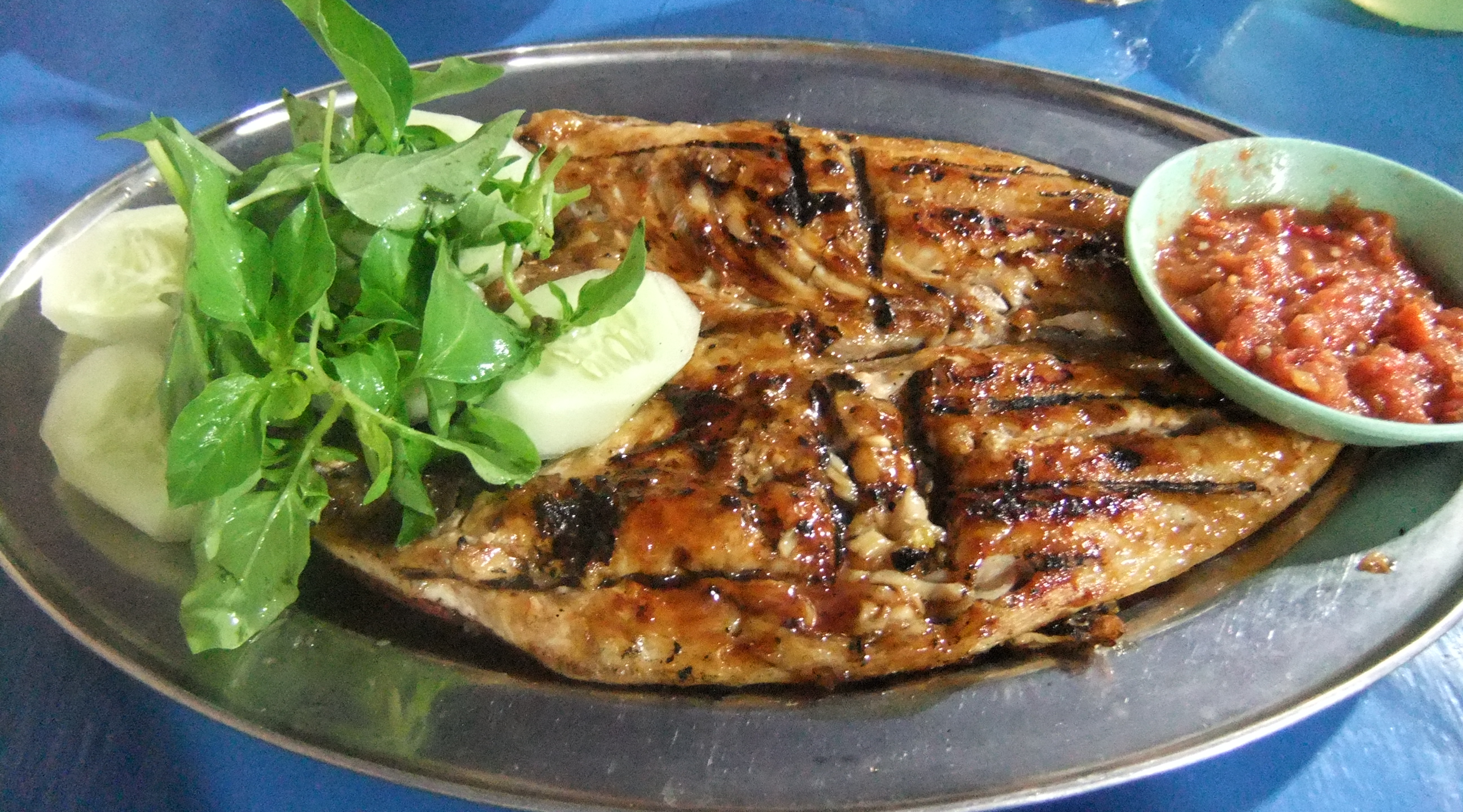 Grilled fish